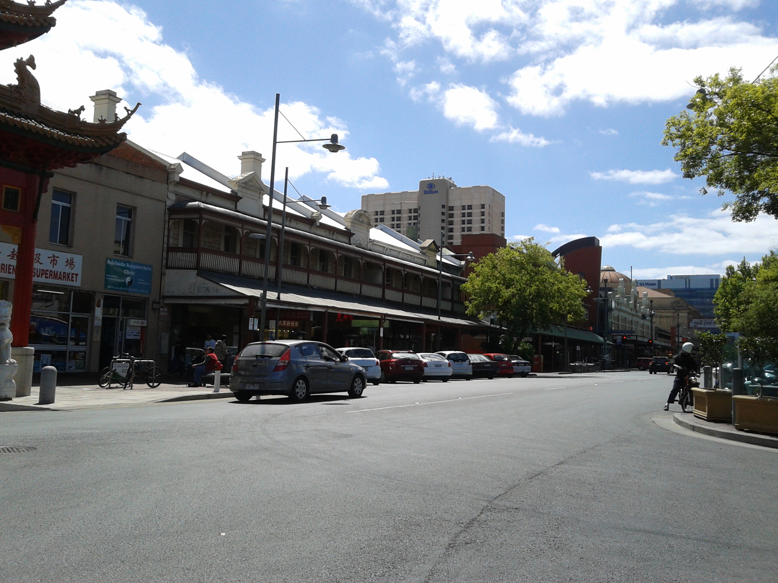 Gouger Street outside Chinatown.